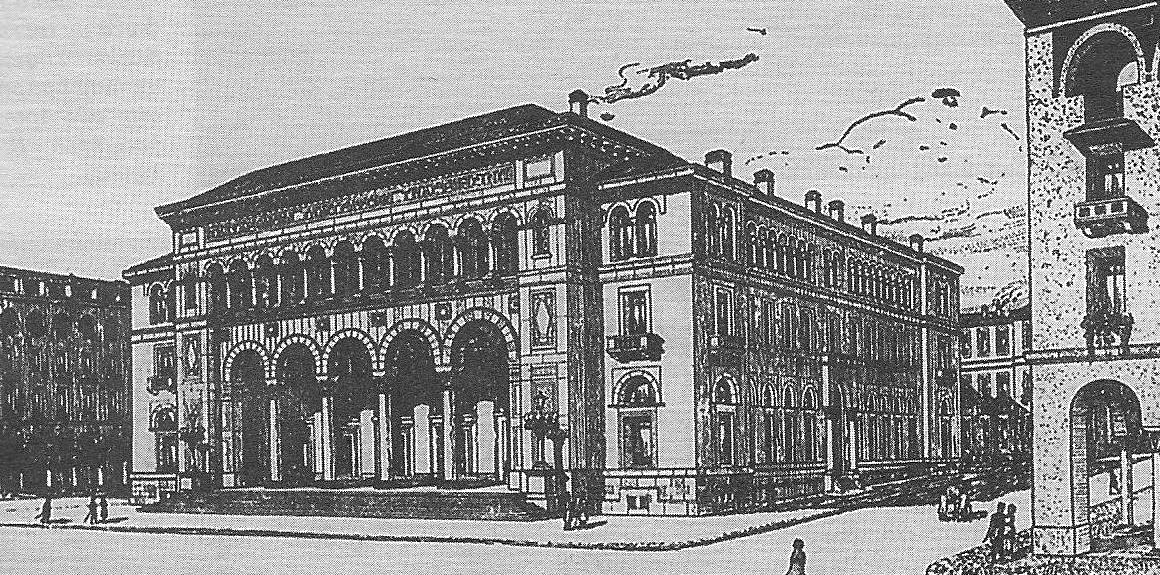 Proposal for the Central Post and Telegram Office which would have taken the place of the current Eleftherias Square in Thessaloniki, which was never built.